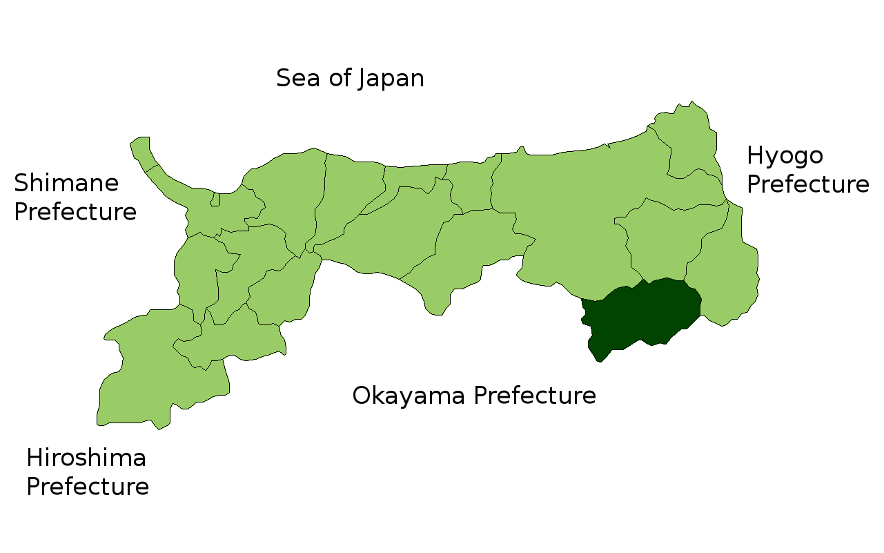 Map of Tottori Prefecture highlighting Chizu town. Borders of map as of October, 2006. (blank map used from [1]) See also Image:TottoriMapCurrent.png